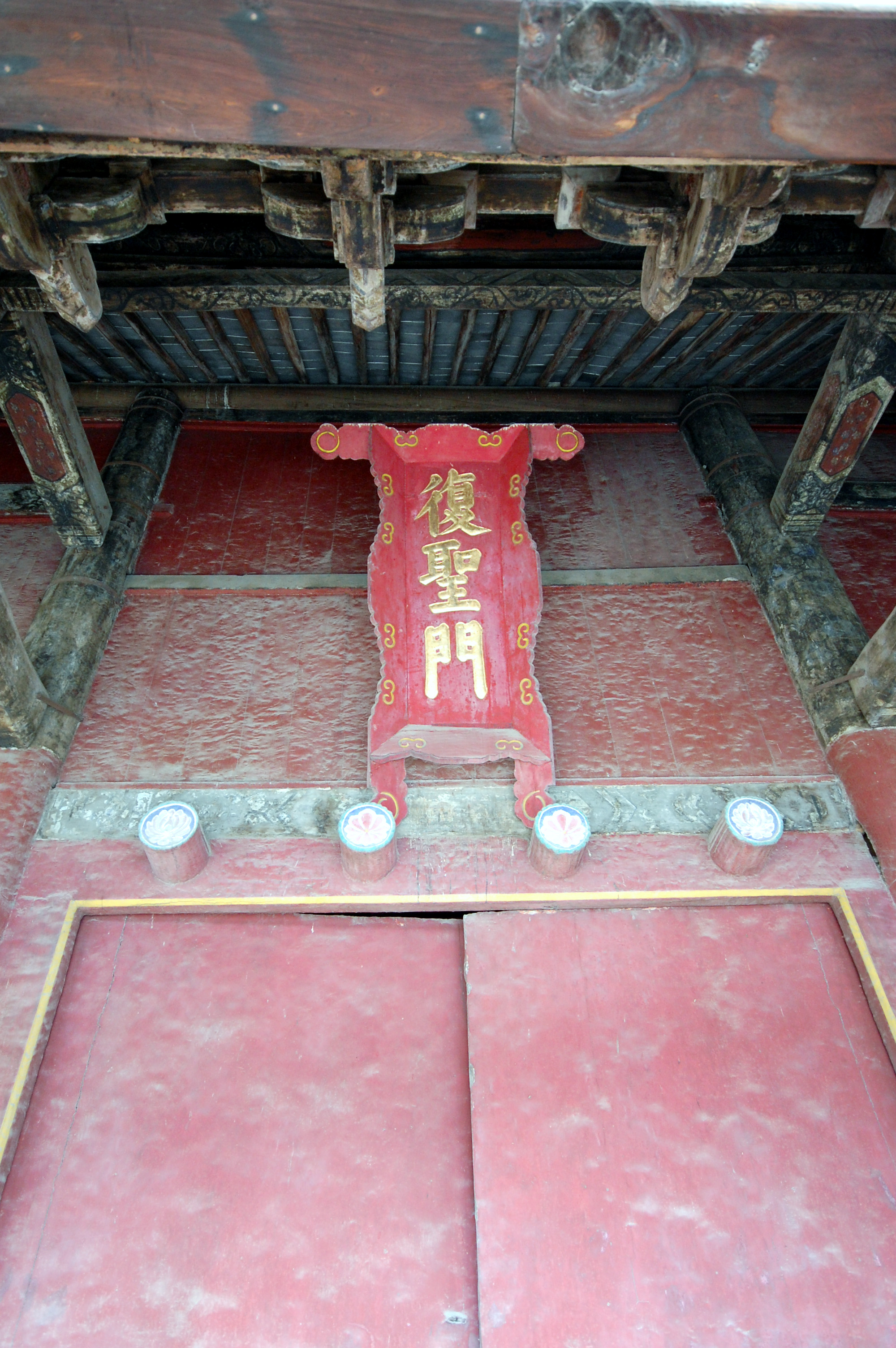 Temple_of_Yan_Gate, Qufu, Shandong